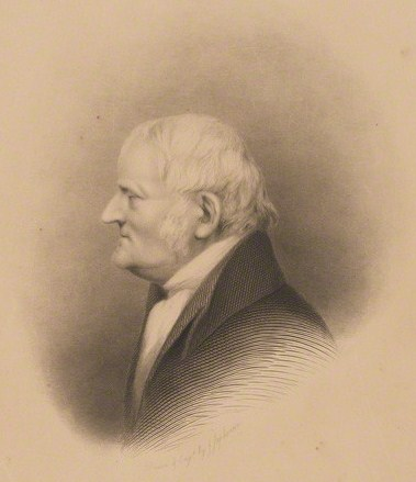 Portrait of John Dalton (1766–1844), English chemist.